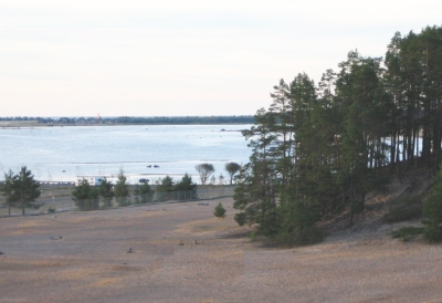 A beach in Kalajoki, Finland